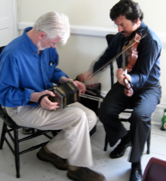 Gearoid O hAllmhurain avec Pierre Schryer